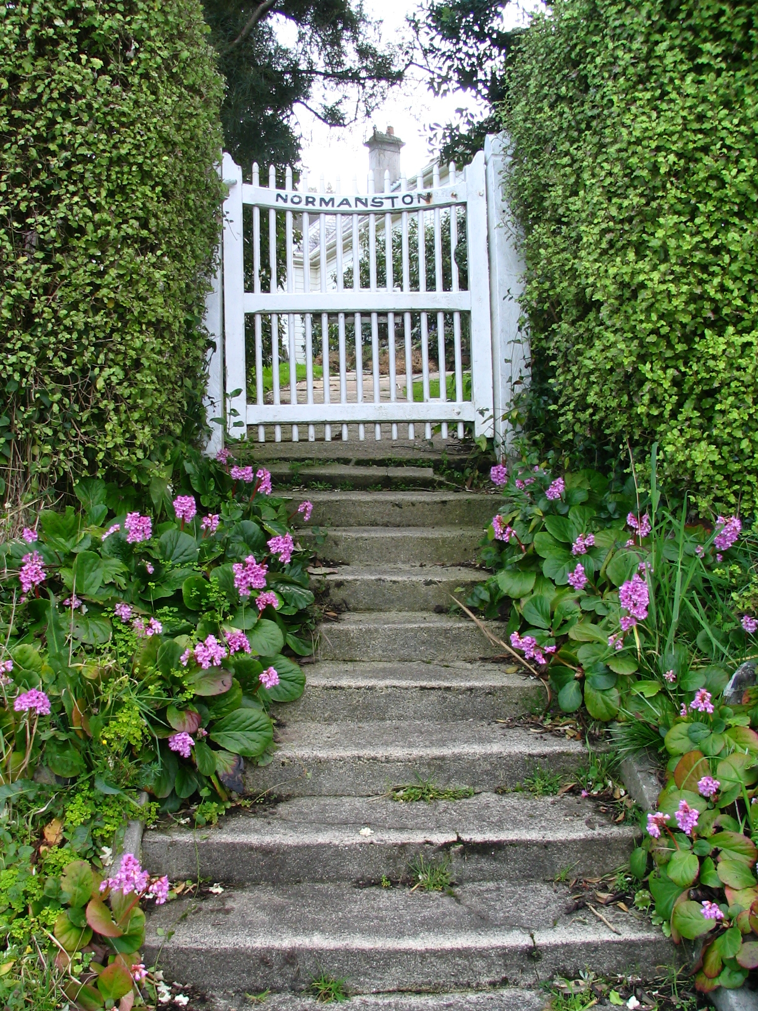 Gate at Normanston, St Leonards, Dunedin, New Zealand.